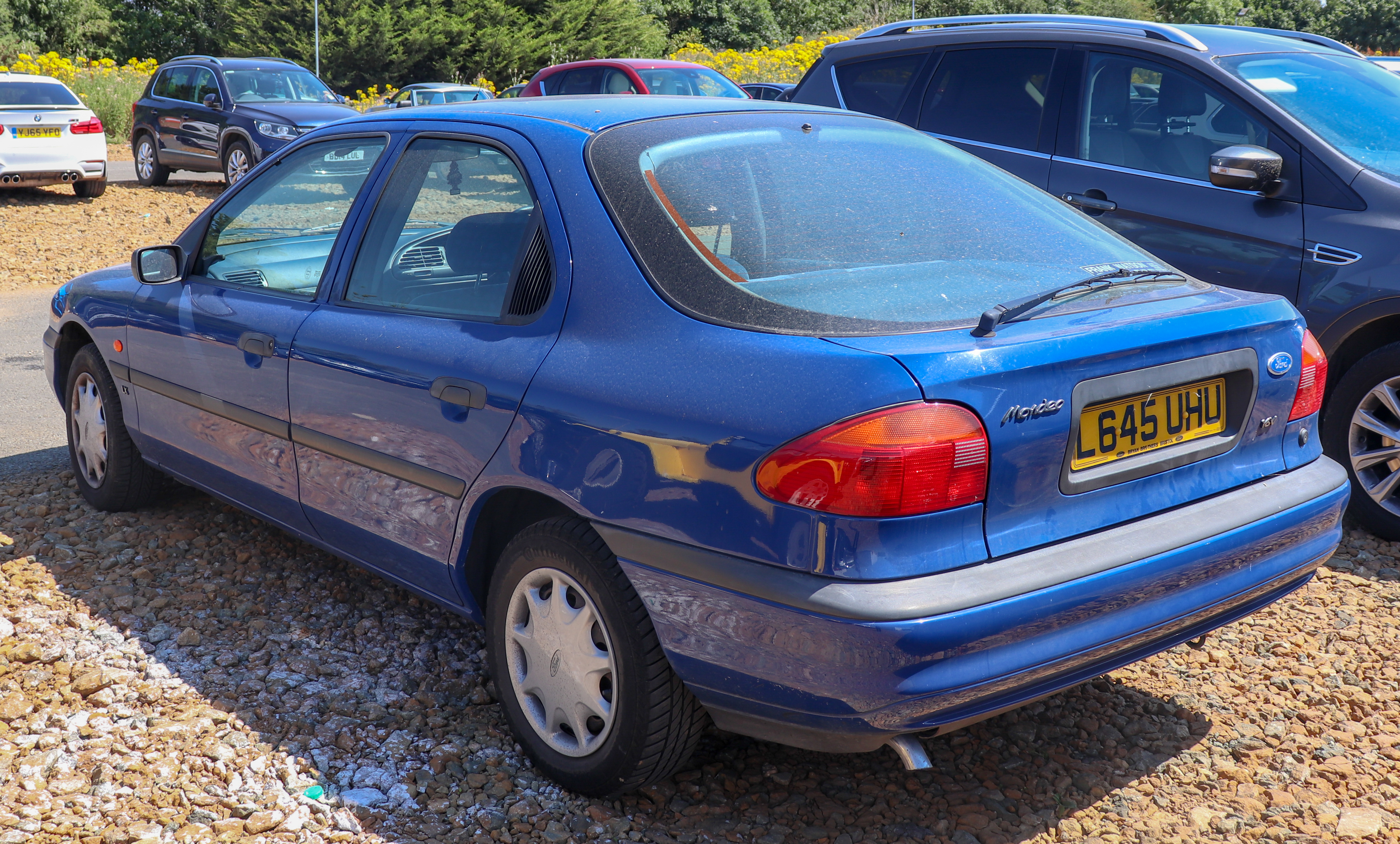 1994 Ford Mondeo LX 1.8 Rear Taken at the British Motor Museum Old Ford Rally 2018, Gaydon